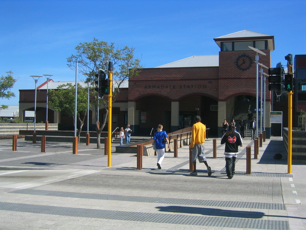 Transperth Armadale Train Station